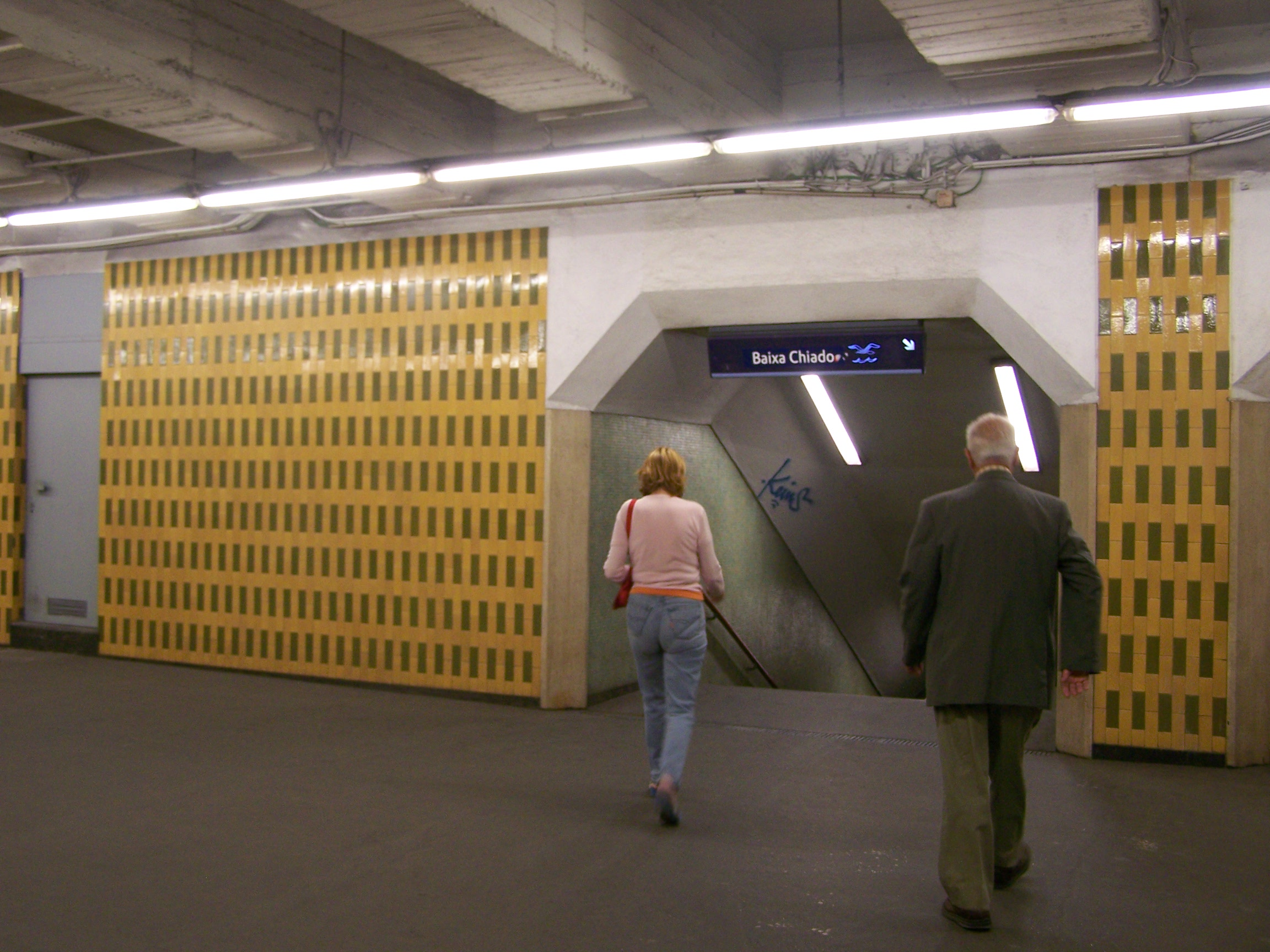 atrium of the Lisbon Metro station São Sebastião, blue line